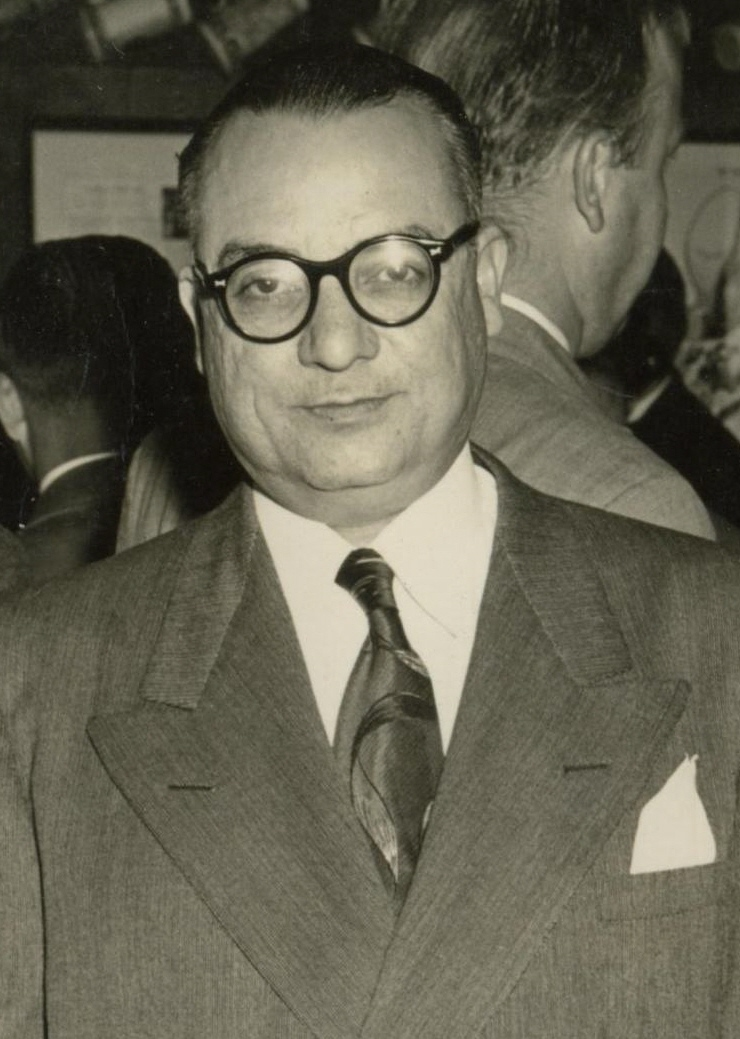 Venezuelan president Rómulo Betancourt in 1946